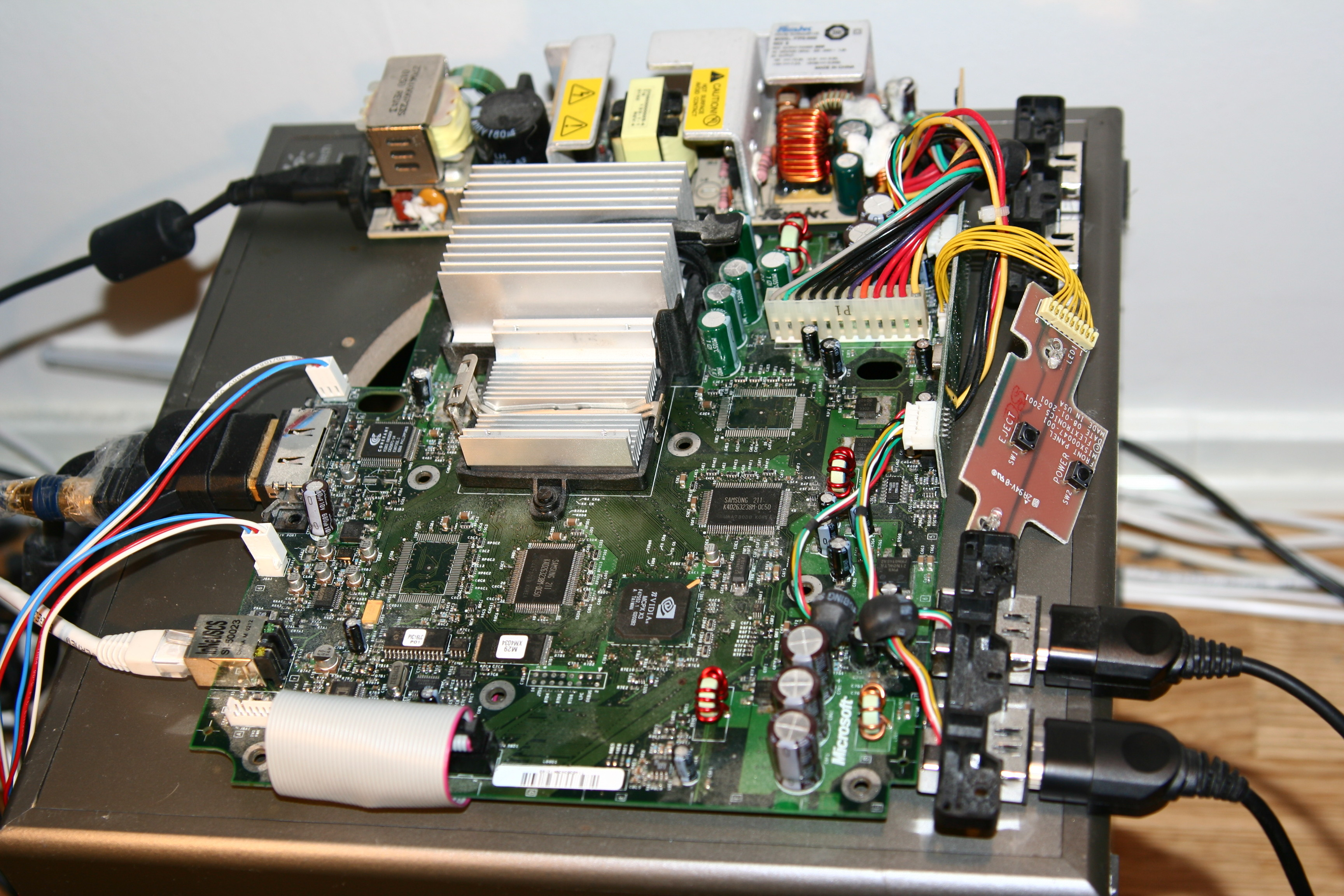 Xbox console without its shell I, the creator of this work, hereby publish it under the following licence